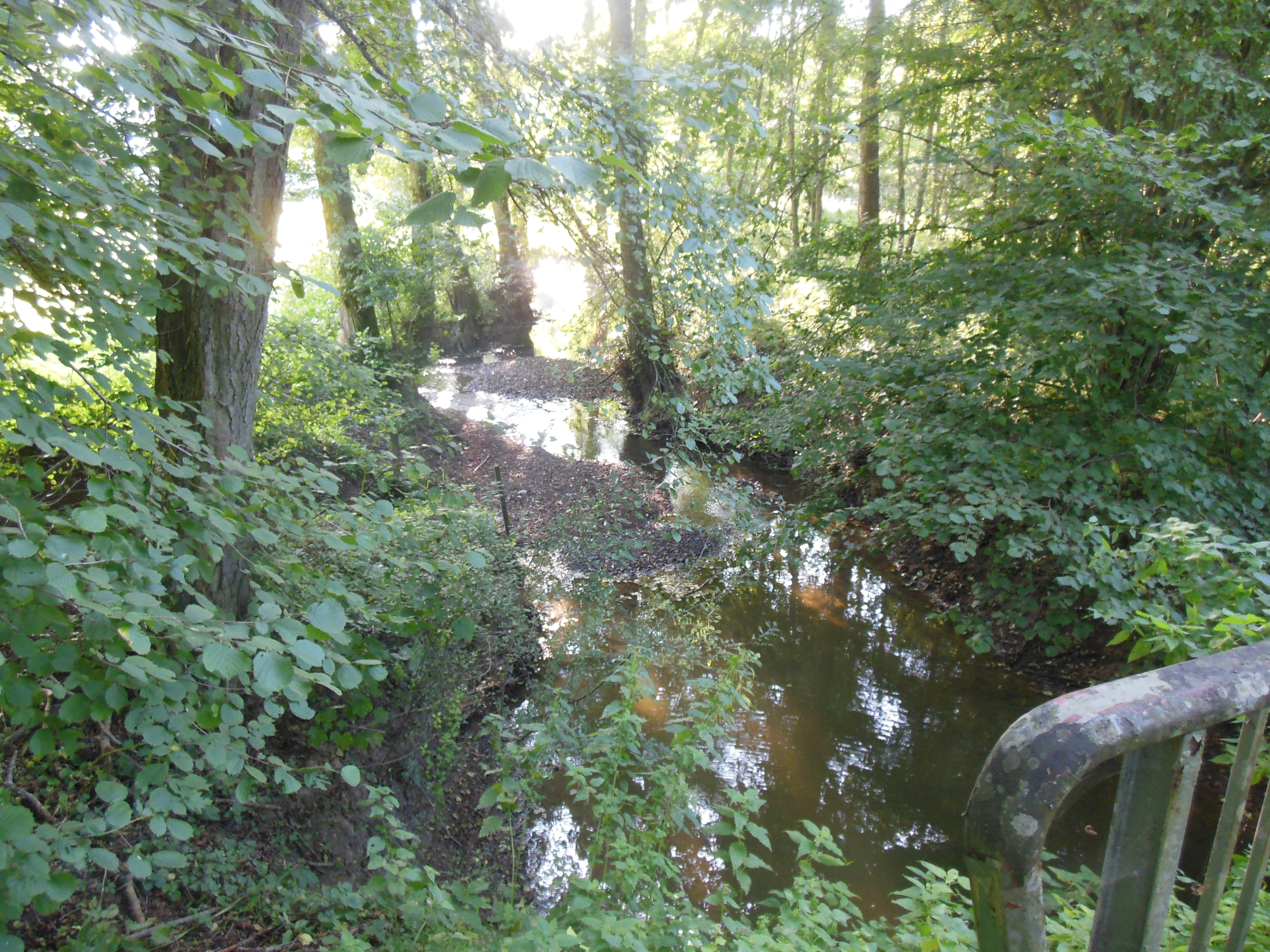 Buttenbach-Petersbach Brook in Rahling